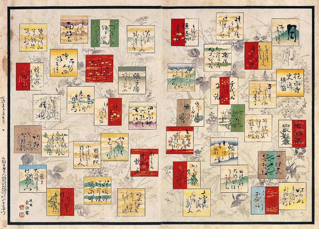 Title page